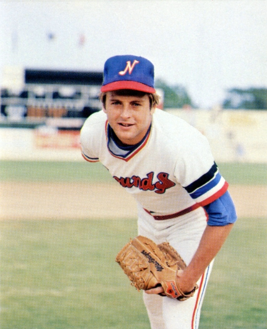 Pitcher Don Cooper of the 1980 Nashville Sounds Minor League Baseball team of the Southern League